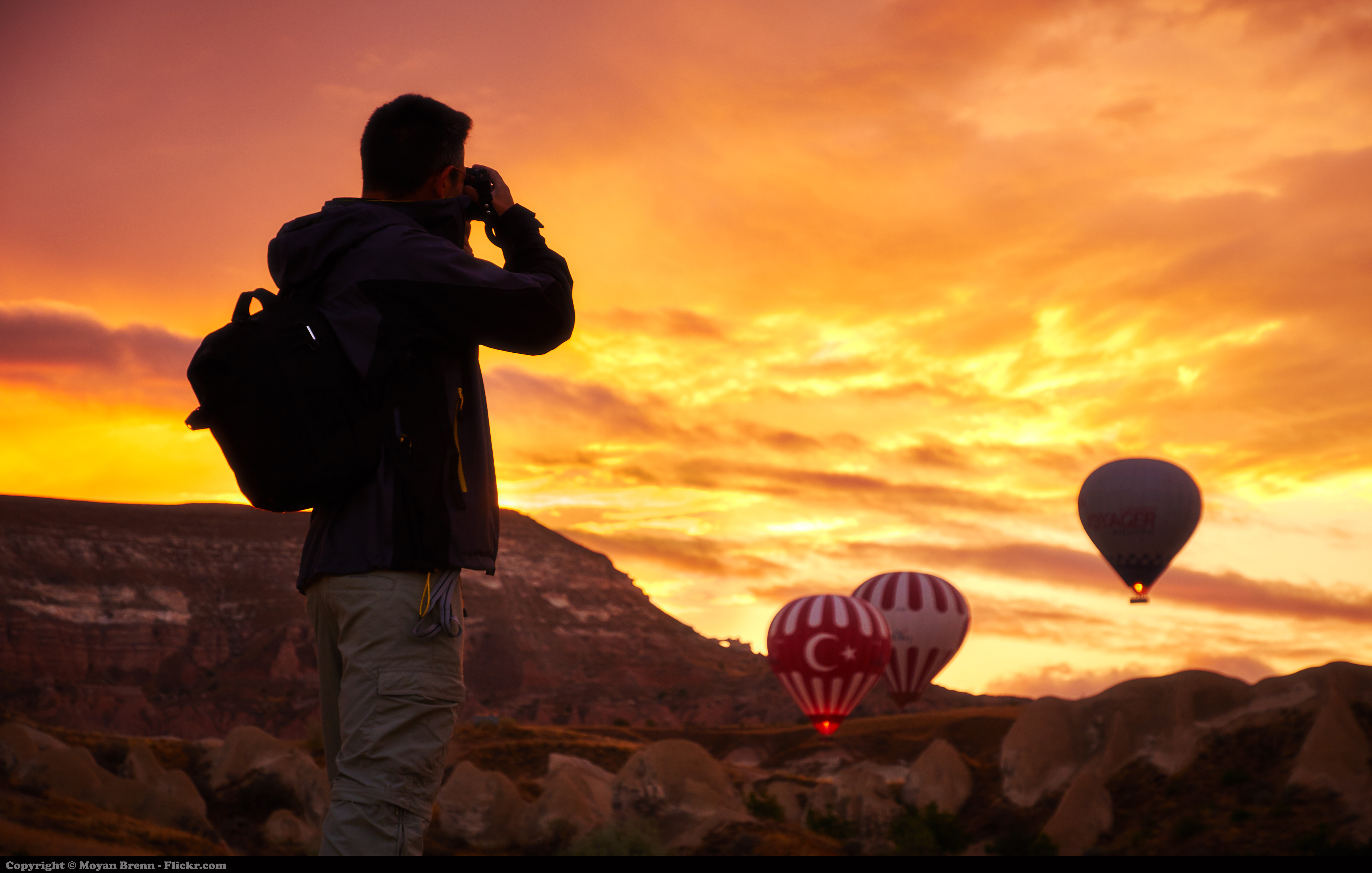 view of the Rose desert in Cappadocia taken in the early morning